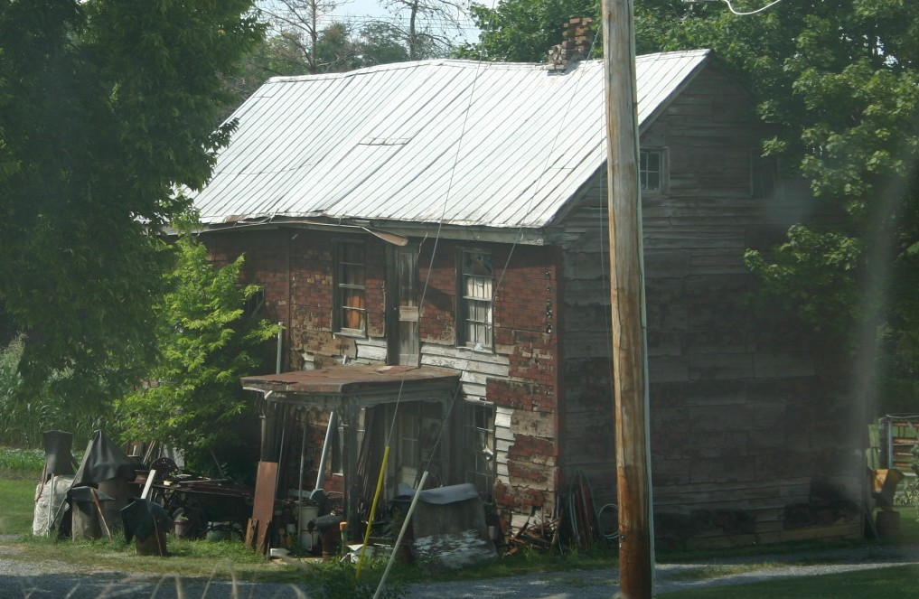 Photo of the old Joseph Wheeler residence